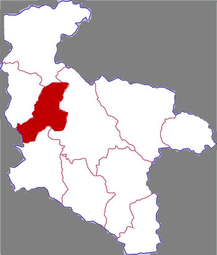 Location of Hanyin county in Ankang city, China